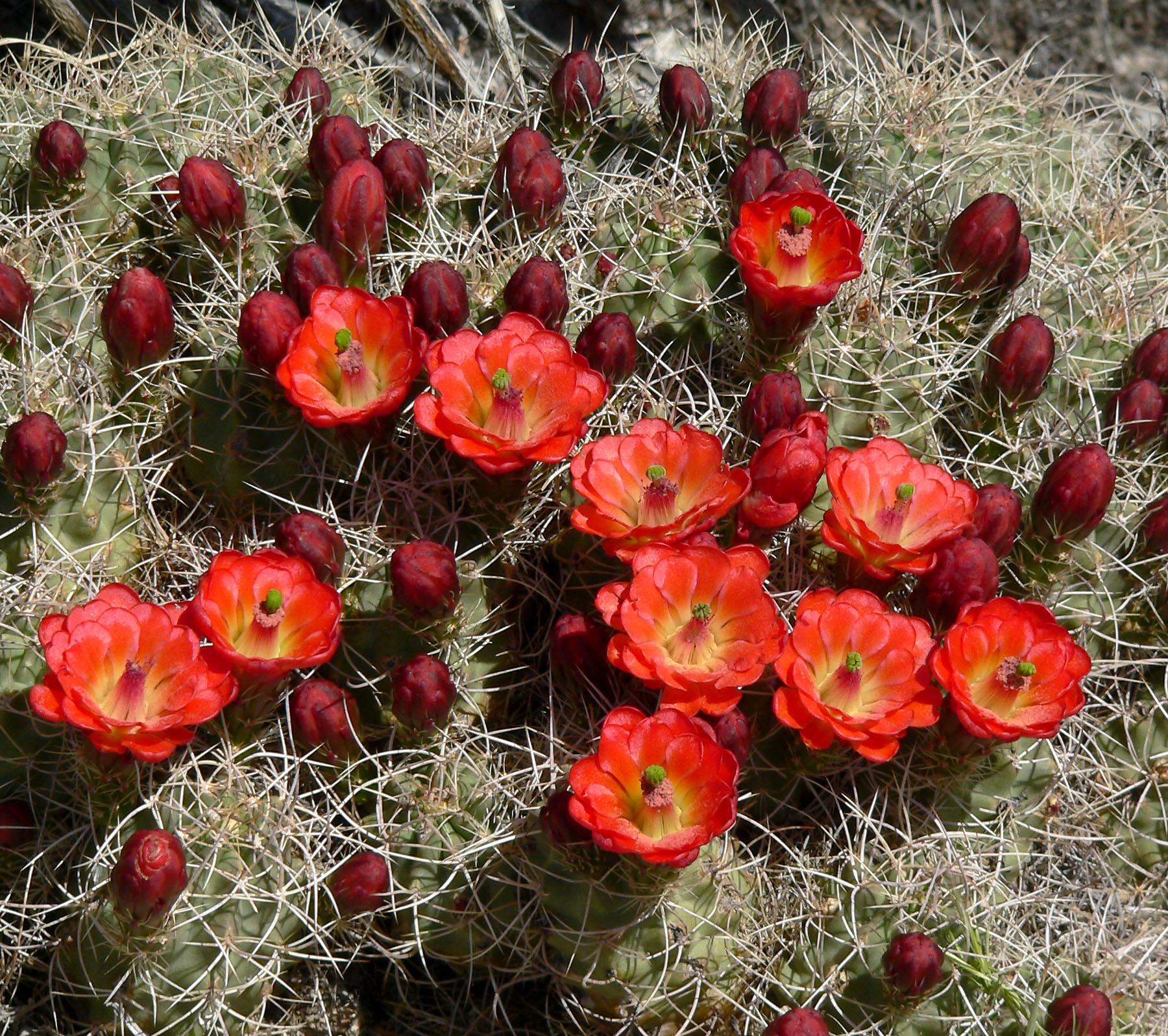 Echinocereus triglochidiatus on Cima Dome near Teutonia Peak, Mojave National Preserve, California